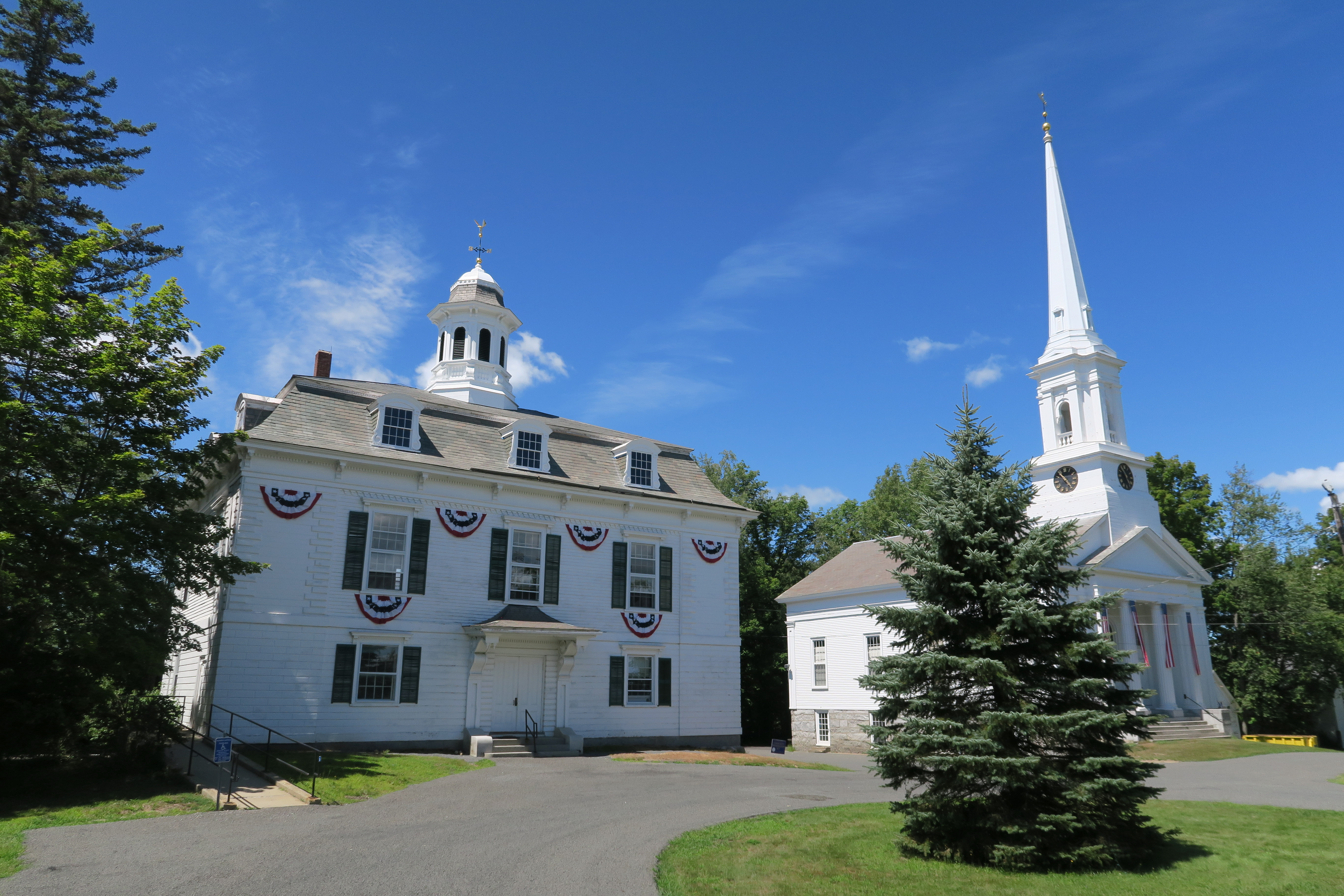 Town Hall and First Congregational Church, Royalston Massachusetts